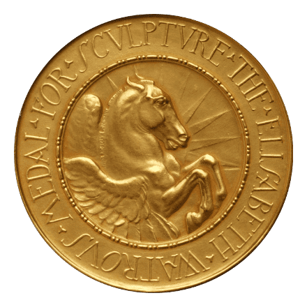 Elizabeth Watrous Medal for Sculpture, awarded by the National Academy of Design, designed by Robert Ingersoll Aitken in 1914; the misspelling of "Elizabeth" was never corrected.